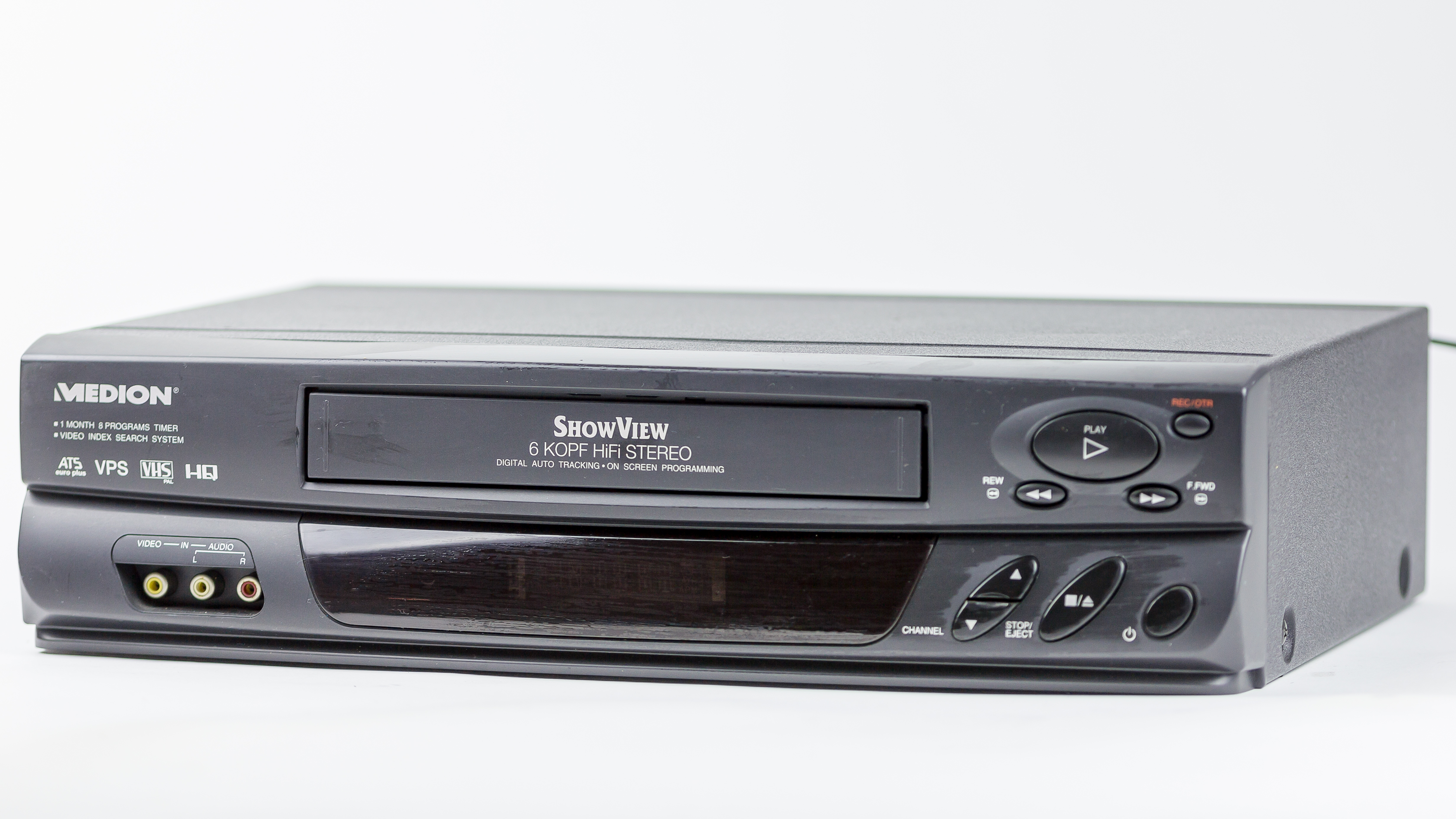 Medion VCR MD8910